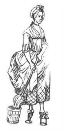 Maid wearing Pattens From an engraving of 12th. March, 1773, entitled "Piety in Pattens or Timbertoe on Tiptoe"